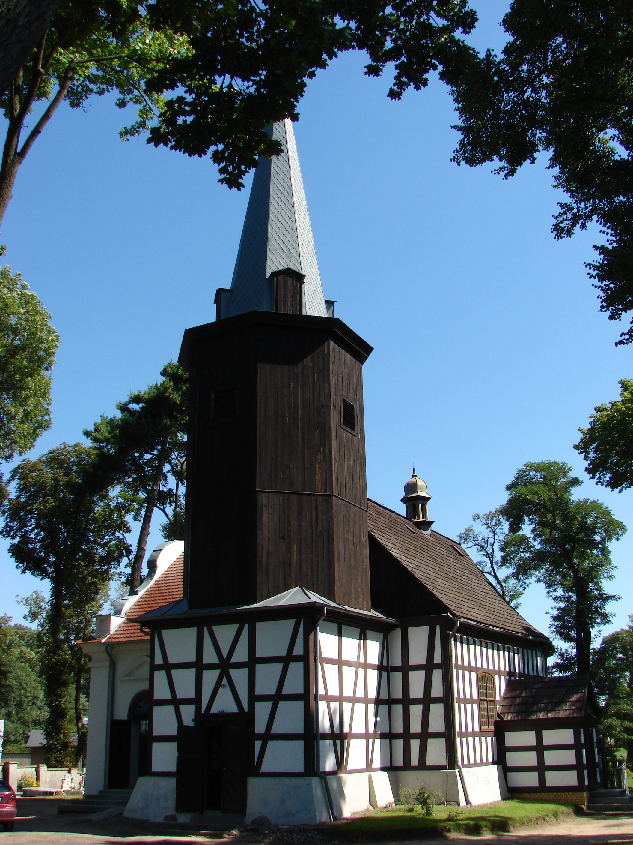 Uzarzewo, Gmina Swarzędz, parish church of St. Michael built in 1749.